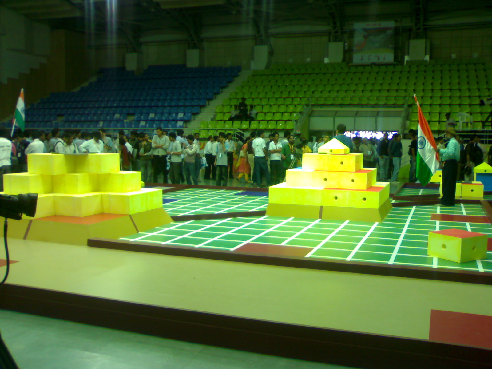 View of Robocon 2010 arena